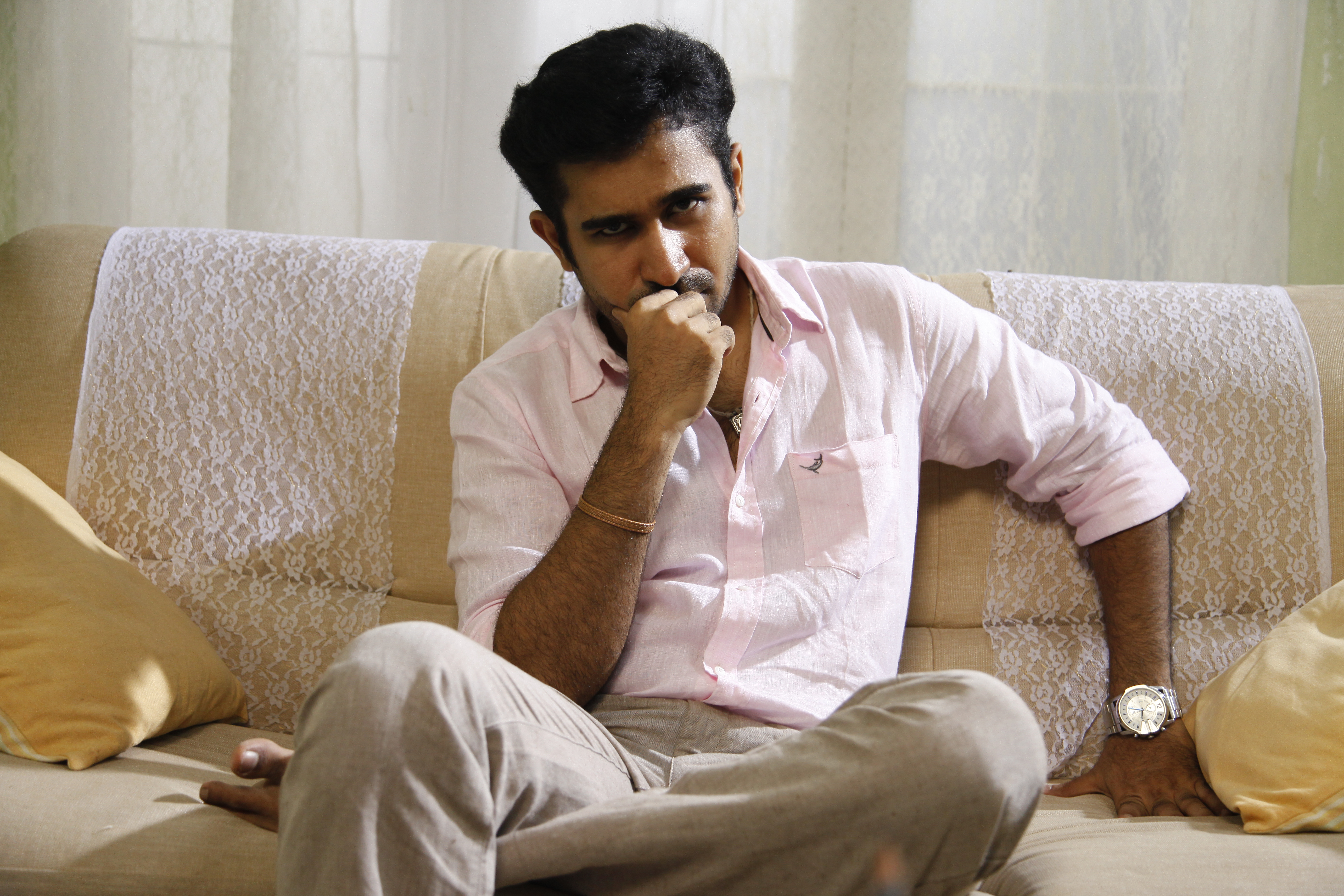 Vijay Antony in Salim